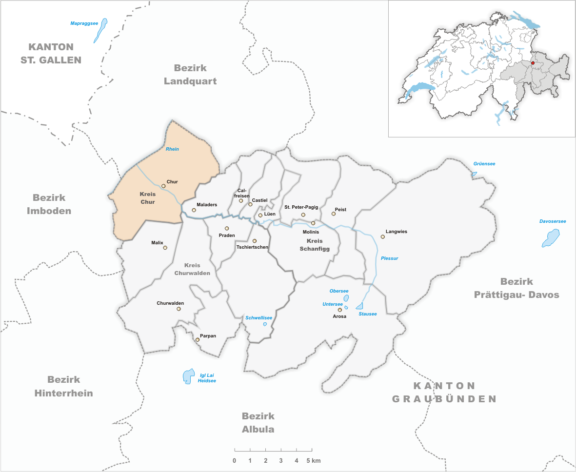 Municipality Chur